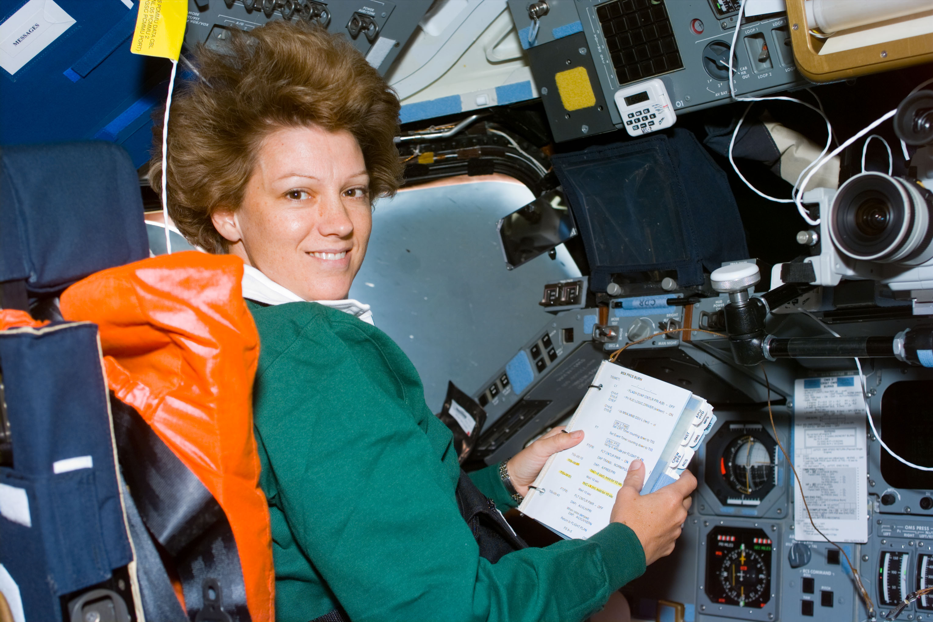 Astronaut Eileen M. Collins, mission commander, looks over a procedures checklist at the commander's station on the forward flight deck of the Space Shuttle Columbia on Flight Day 1. The most important event of this day was the deployment of the Chandra X-Ray Observatory, the world's most powerful X-Ray telescope. The photo was recorded with an electronic still camera (ESC). S93-E-5033.